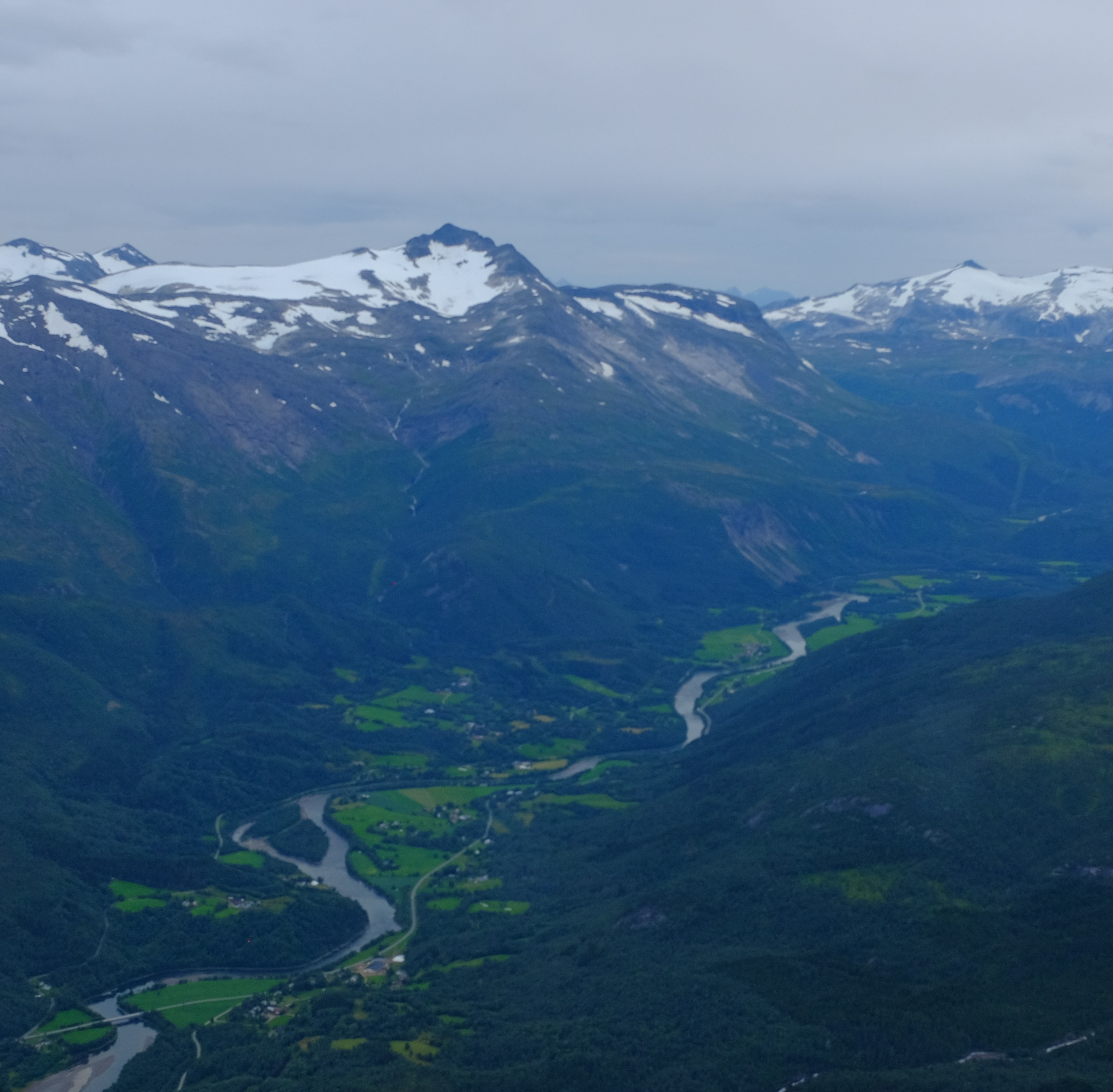 Beiarelva river (or Storåga) is a ca. 56 km long waterway in Beiarn municipality in Nordland county. The river follows the main valley in Beiarn and flows into Beiarfjorden by Tvervik.